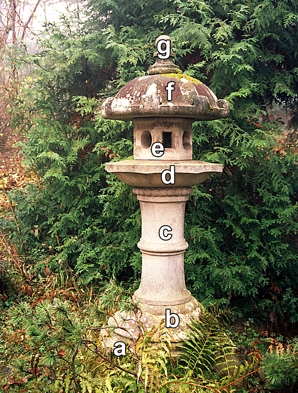 Stone lantern in Botanical garden in Cluj-Napoca